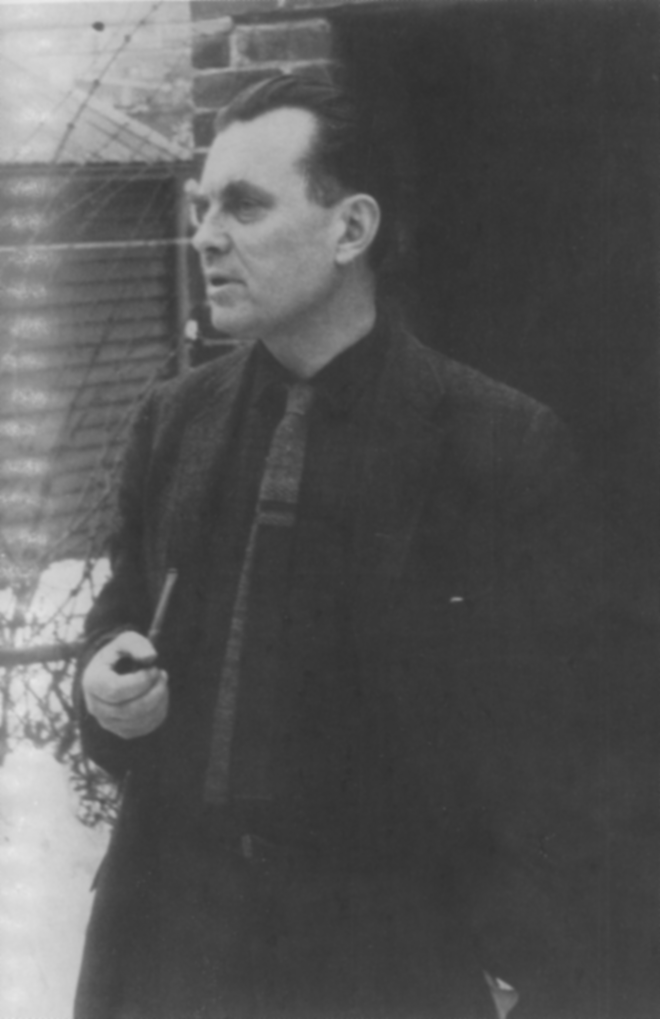 Photograph of Czesław Miłosz.